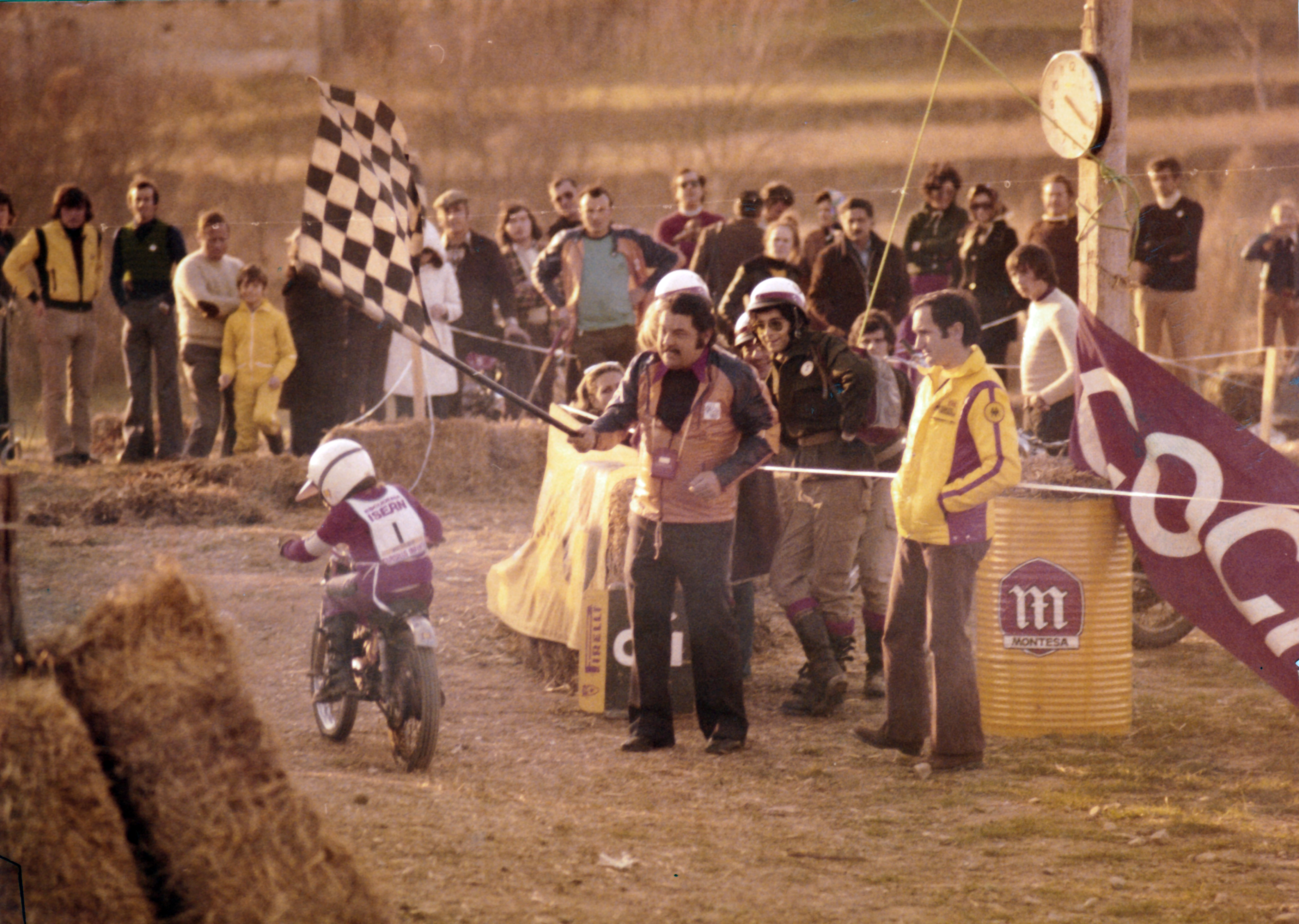 Ricard Pinet and Pere Pi on the arrival of a motocross race for children during the children's motorcycling course held at the Gallecs circuit around Christmas 1974